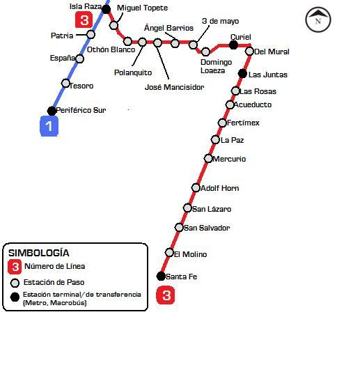 Map of planned Line 3 of the Guadalajara light rail system.